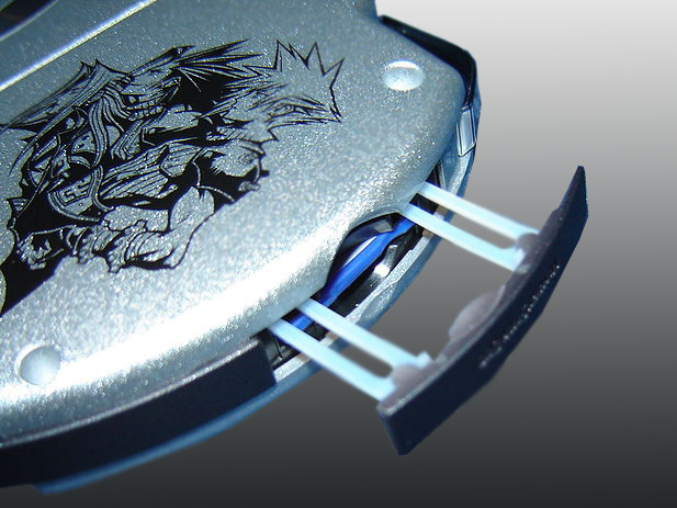 The redesigned Memory Stick slot for the new PSP Slim. The memory card slides in upside down